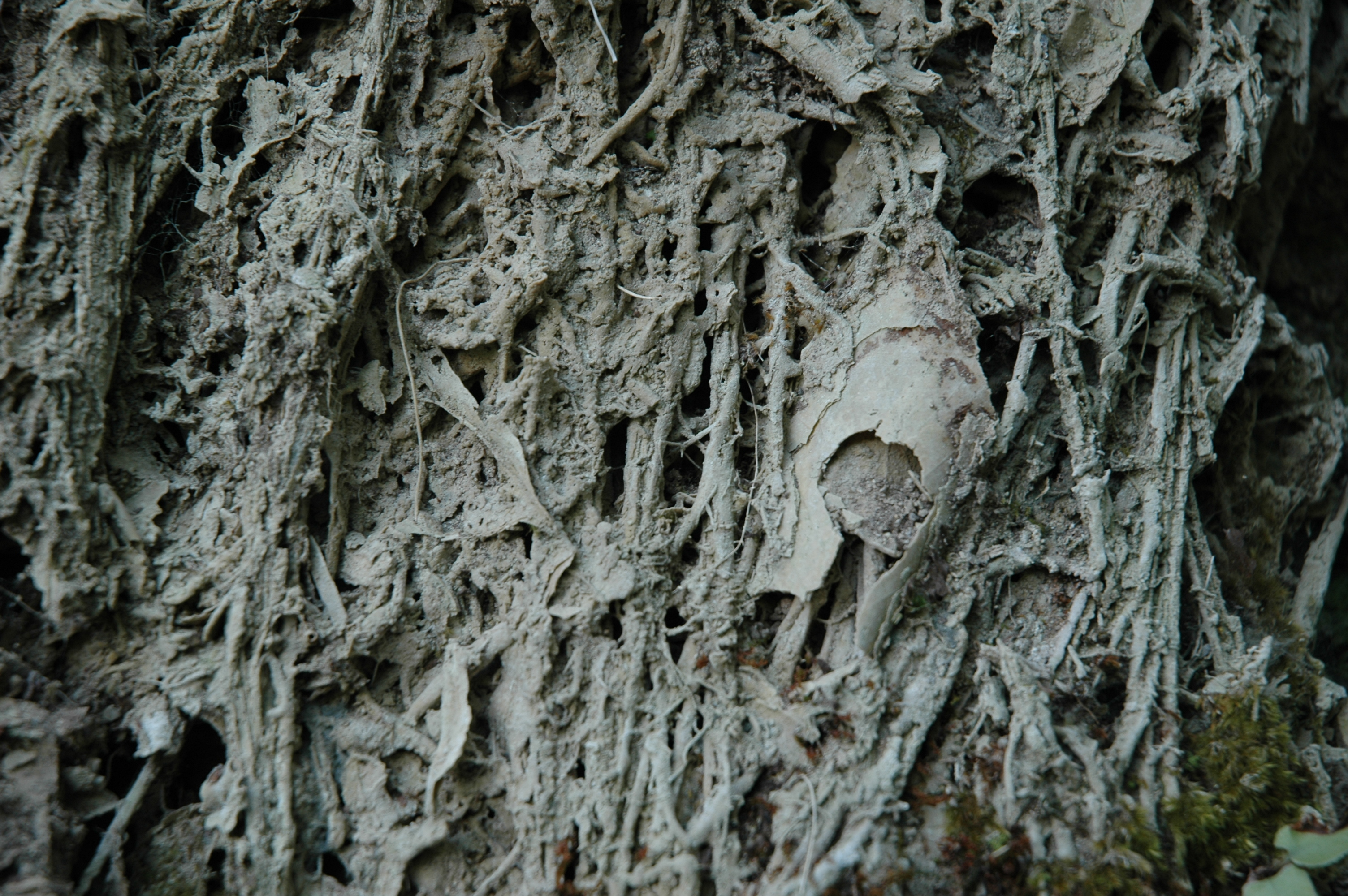 Tufa, sometimes referred to as (meteogene) travertine - Calcium-carbonate-encrusted, Plitvice Lakes National Park.